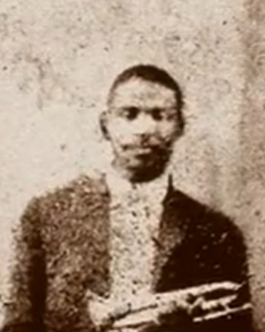 Buddy Bolden circa 1905